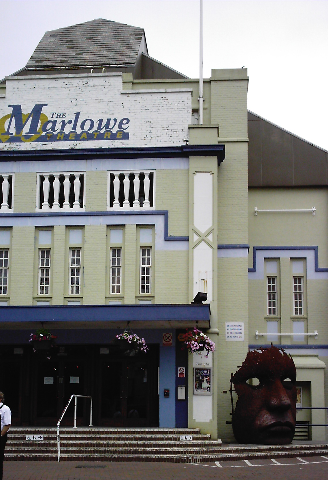 The now-demolished Marlowe Theatre. Suzanne Knights, my photo, July 2007